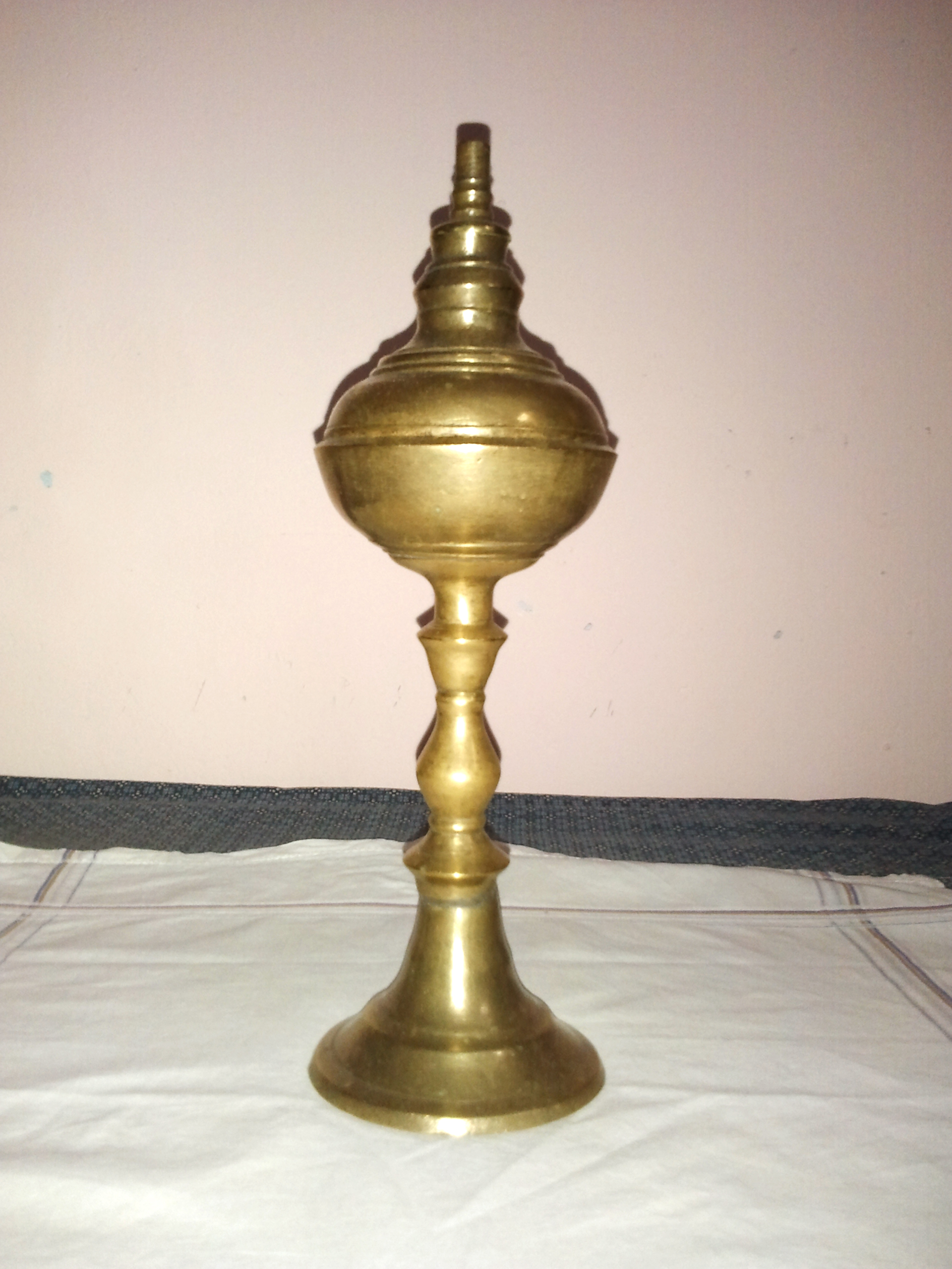 Kerosene Lamp